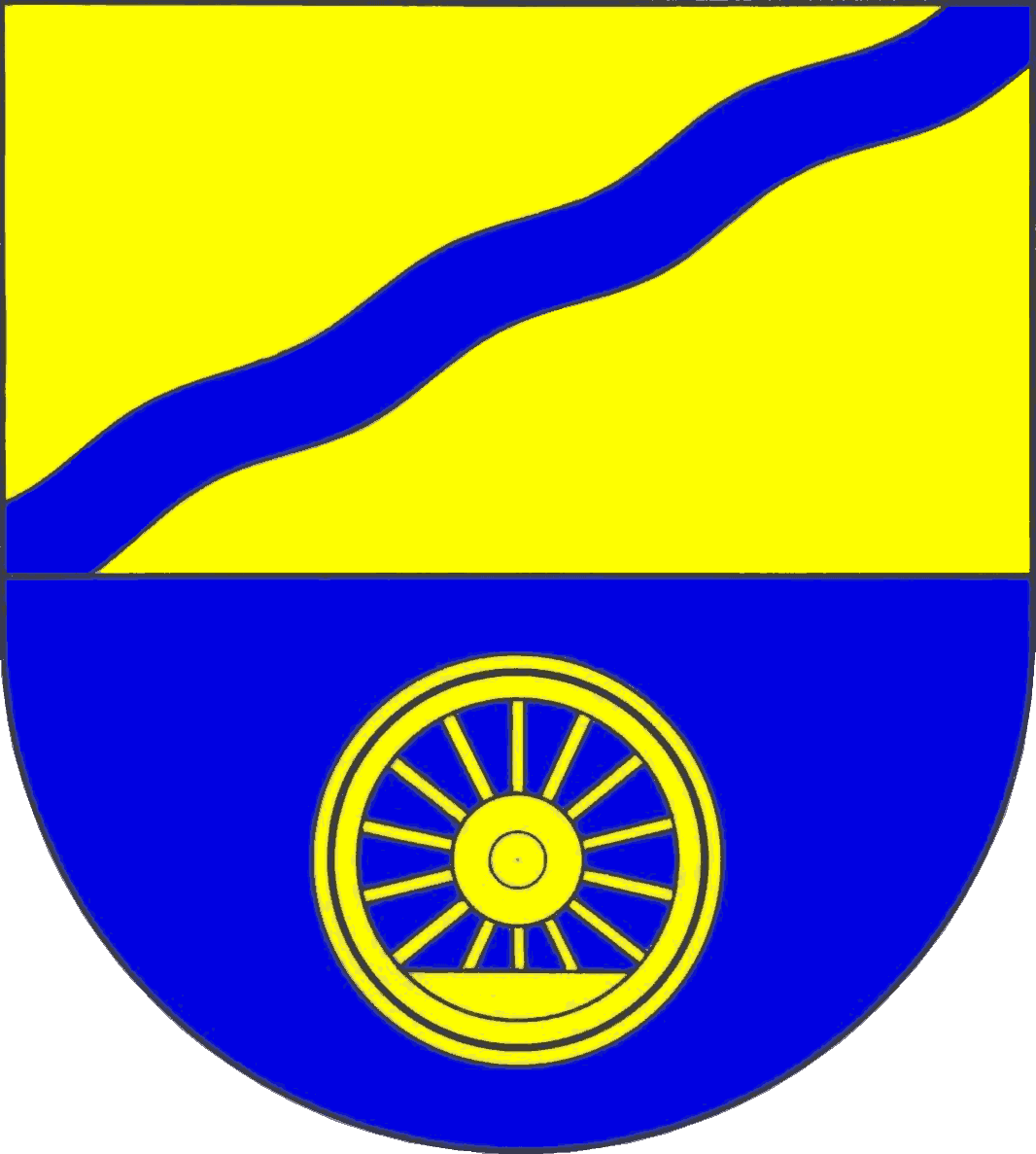 Coat of arms of the municipality Jübek in Schleswig-Holstein, Germany